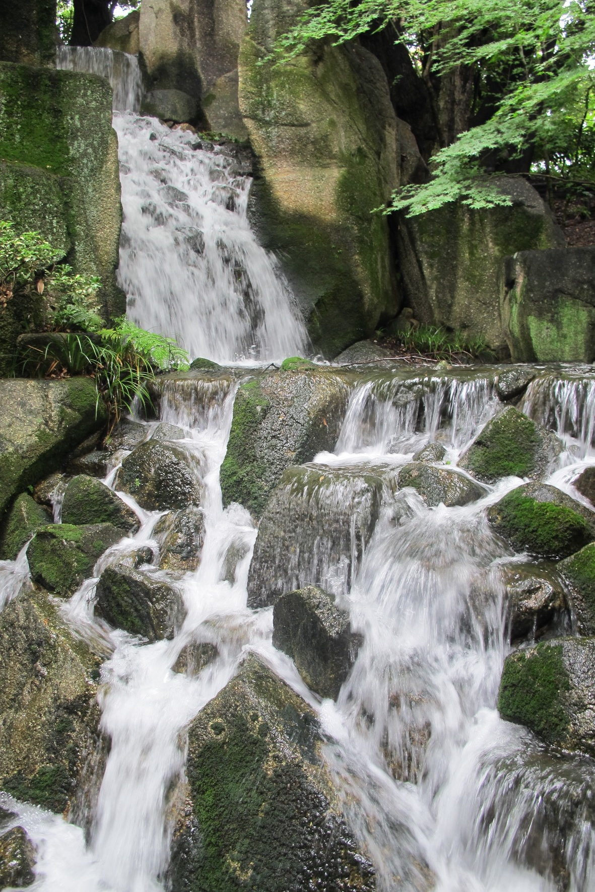 Tokugawa-en Ozone-waterfall